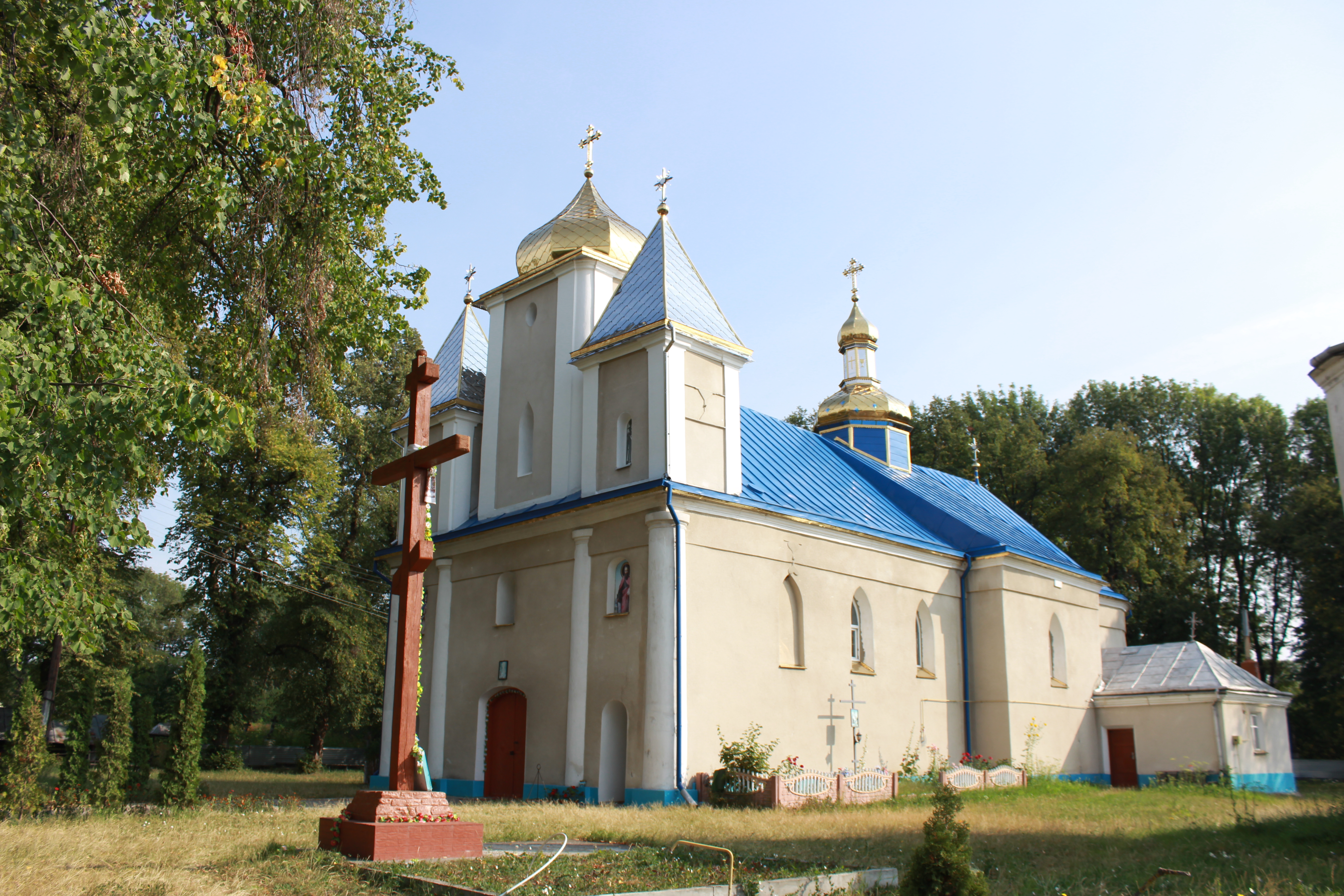 Церква Івана Хрестителя, с. Королівка, Борщівський р-н, 2016